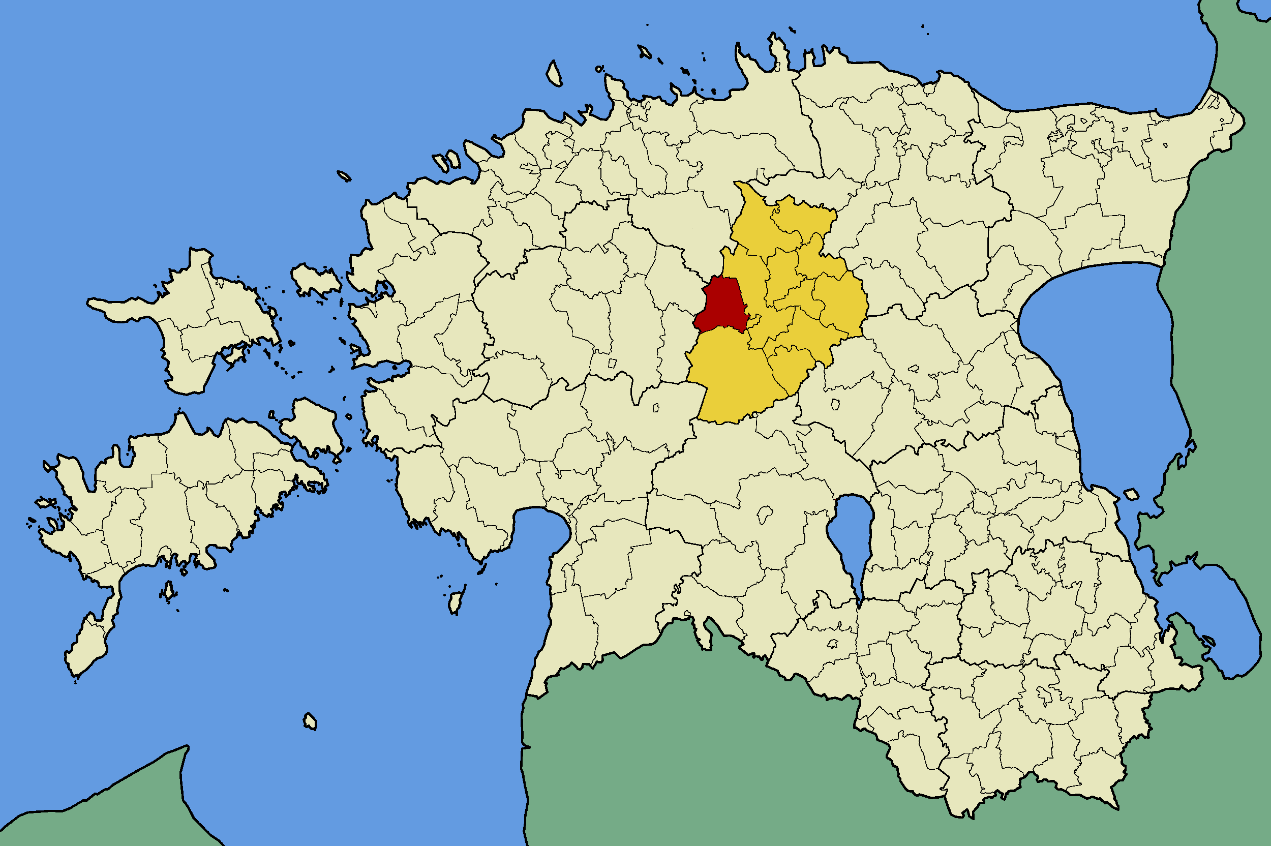 Map of Estonia with borders of municipalities (parishes). Järva county and Väätsa municipality emphasized.